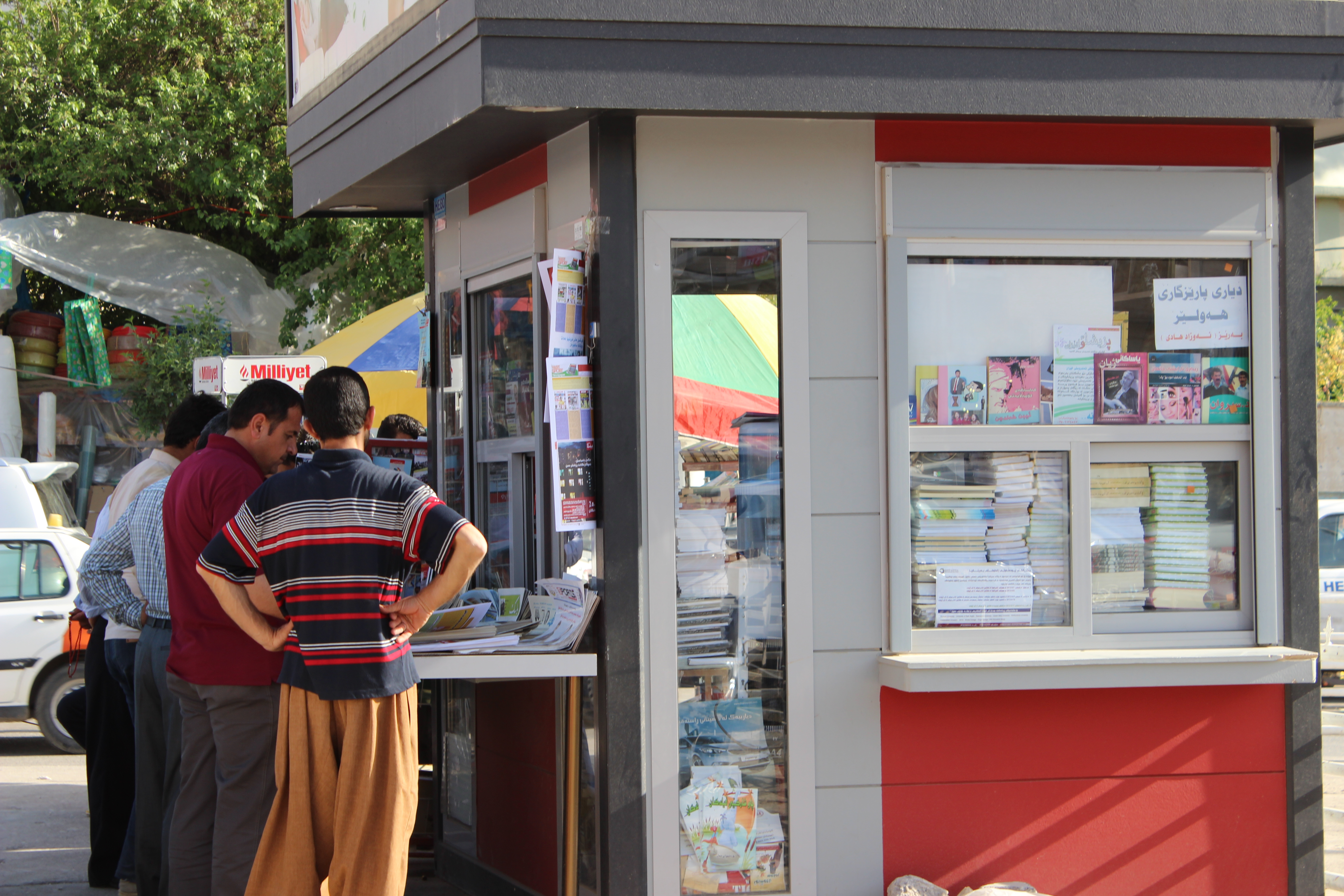 Newsstand-iraqi-kurdistan-Arbil Kurdî: کۆشکی ڕۆژنامەفرۆشی لە هەولێر -هەرێمی کوردستان Koşkî rojnamefroşî le hewlêr -herêmî kurdistan